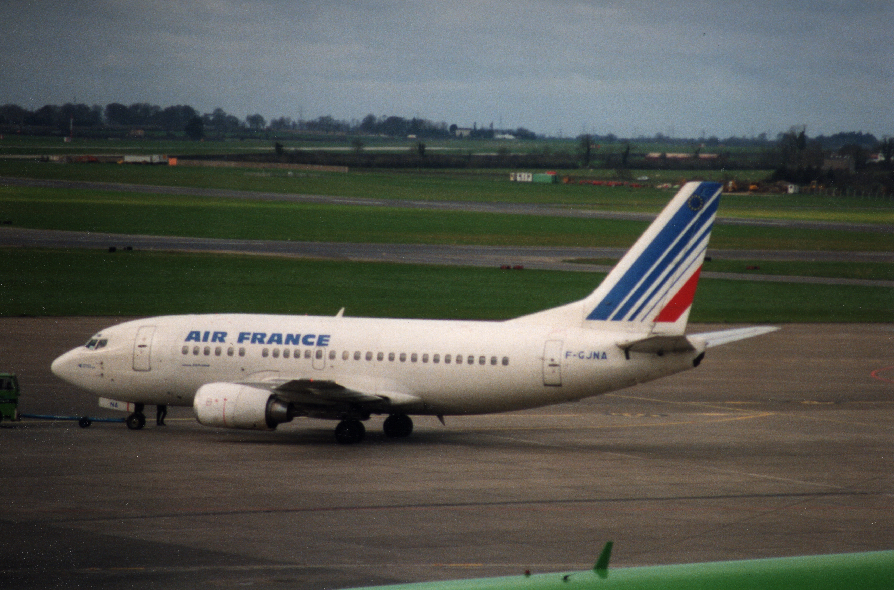 Air France (F-GJNA) Boeing 737-500 aircraft, Dublin Airport, Dublin, Republic of Ireland, February 1993